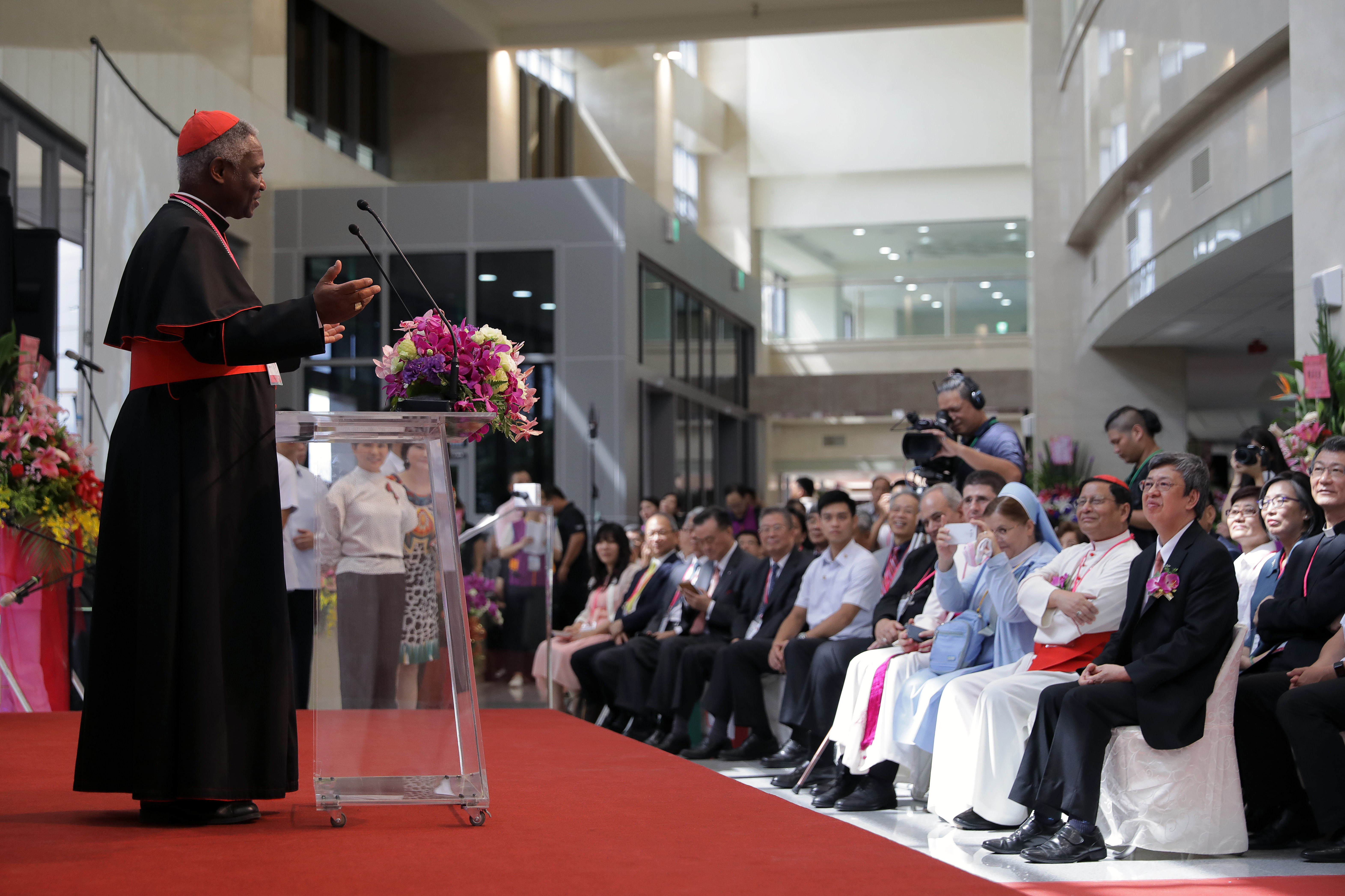 授權方式及範圍：中華民國總統府│政府網站資料開放宣告 Authorization Method & Scope: Office of the President, Republic of China (Taiwan) | Government Website Open Information Announcement